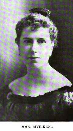 Julia Rivé King, from an 1897 publication.